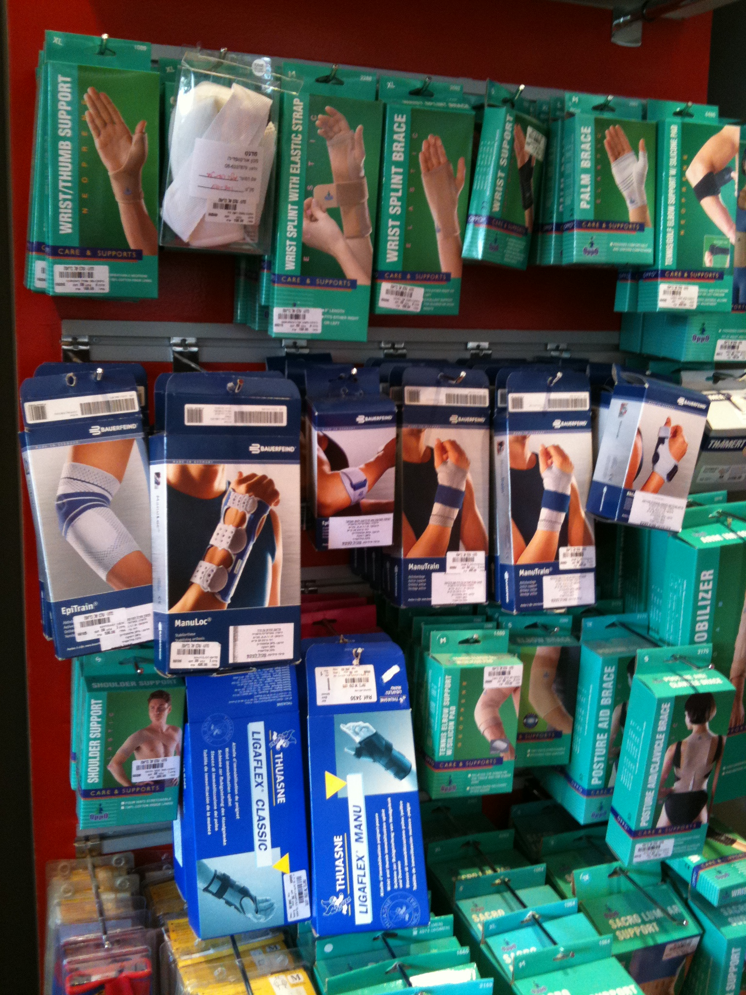 Orthesis. Israel